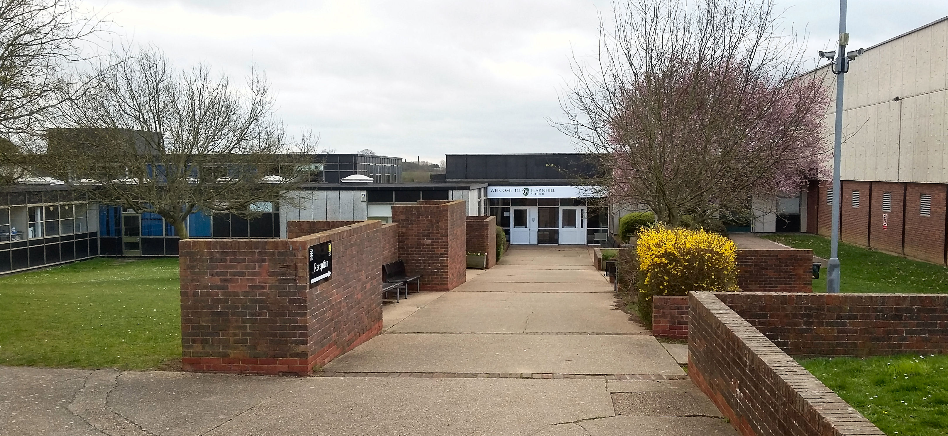 The main entrance to Fearnhill School in Letchworth in Hertfordshire